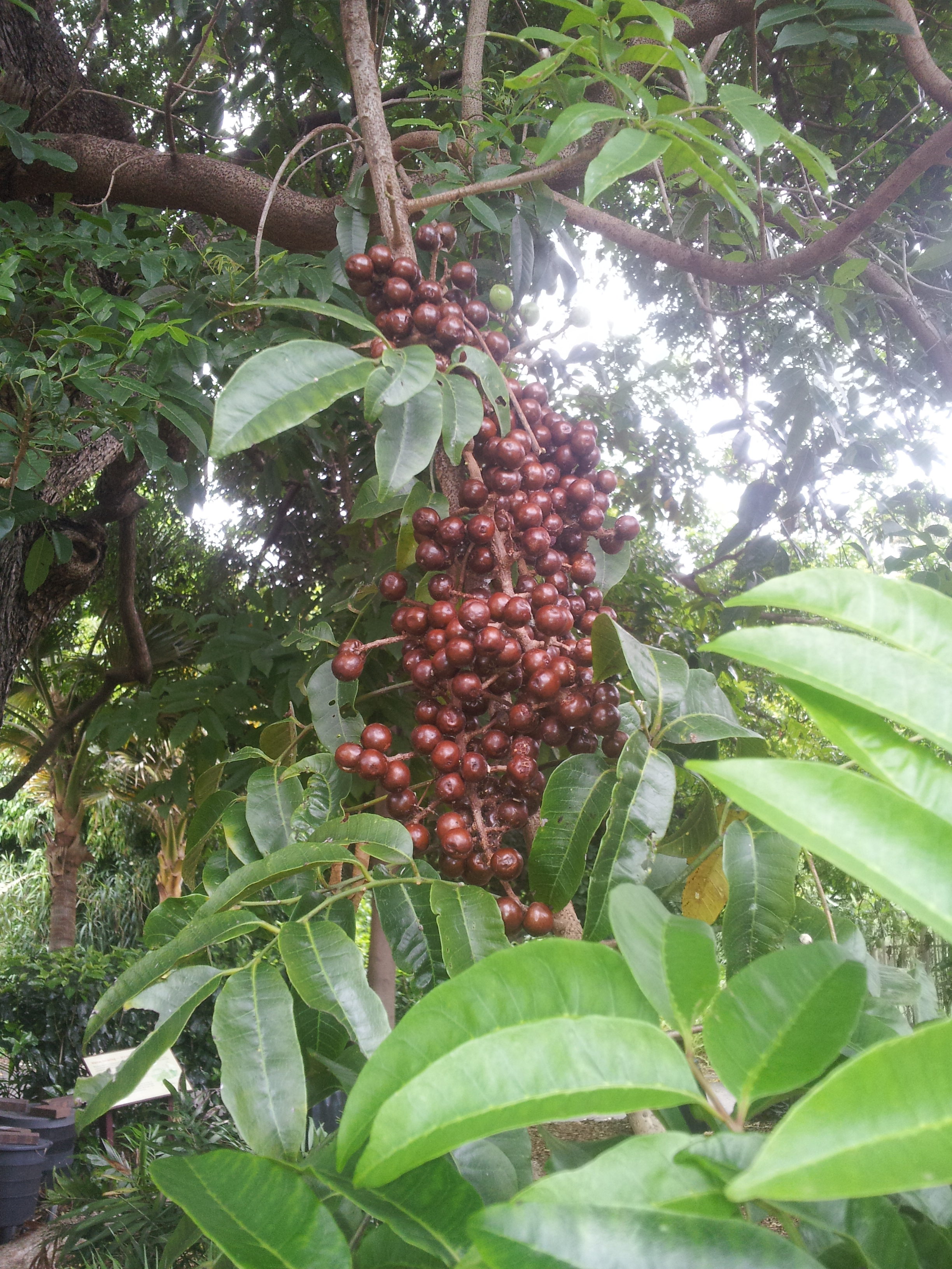 Rhodosphaera rhodanthema, cult. RBG Sydney